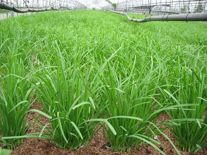 Garlic chives (Allium tuberosum)